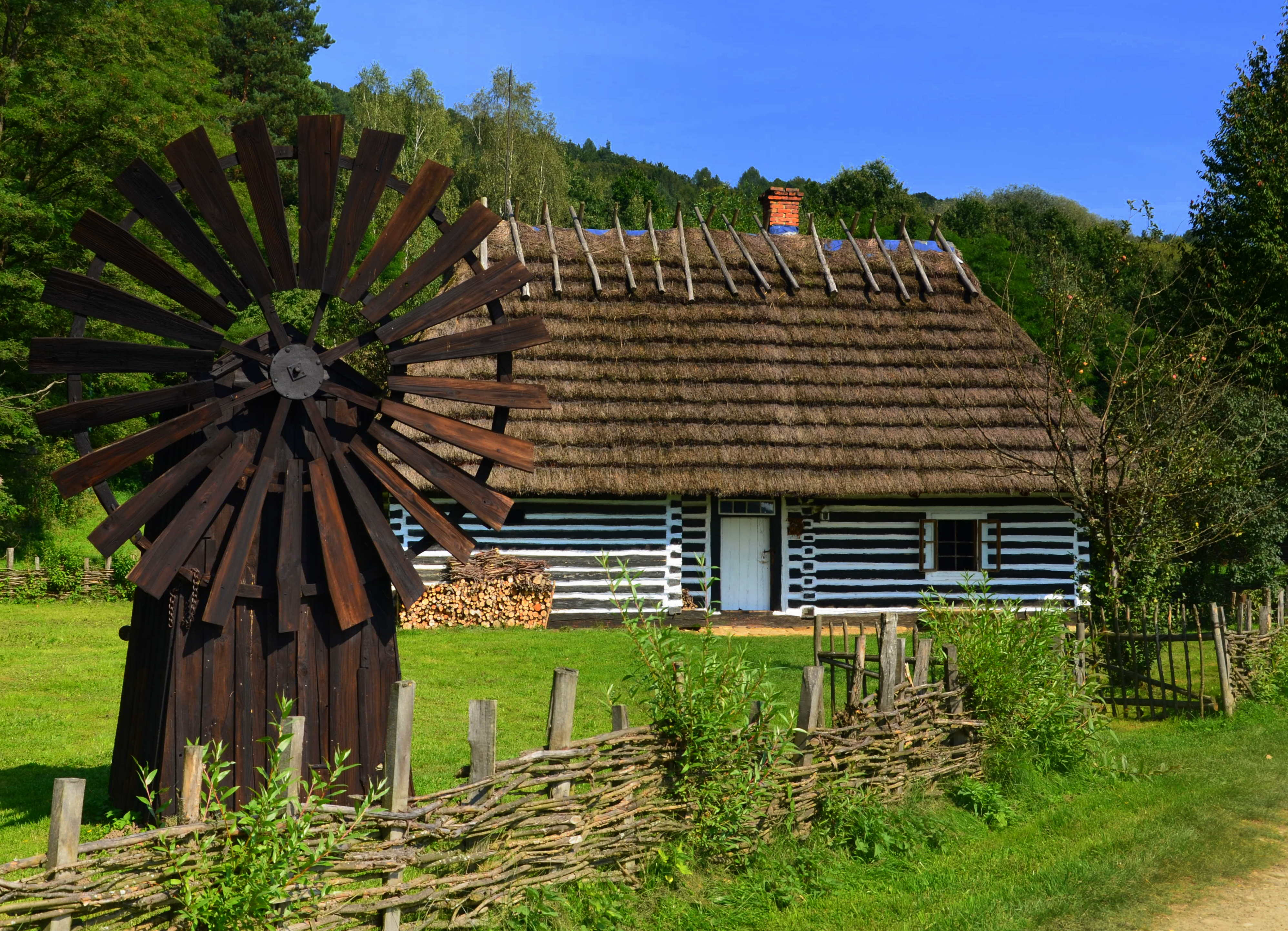 Polish Uplanders (pl. Pogorzanie) wooden homes from 19th. c. Wohngebäude 19. Jhdt